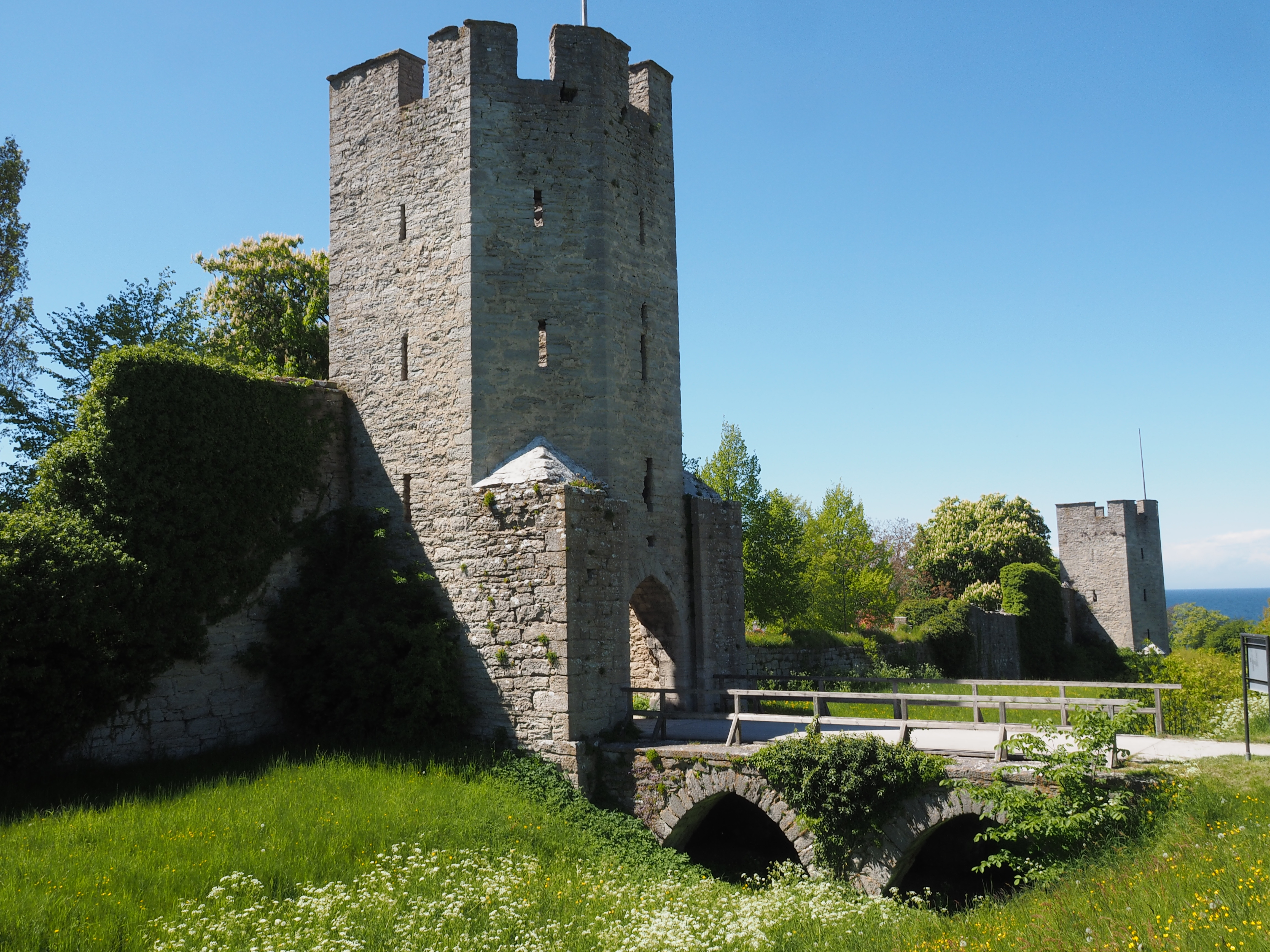 Gate of St. George in the Town Wall Visby